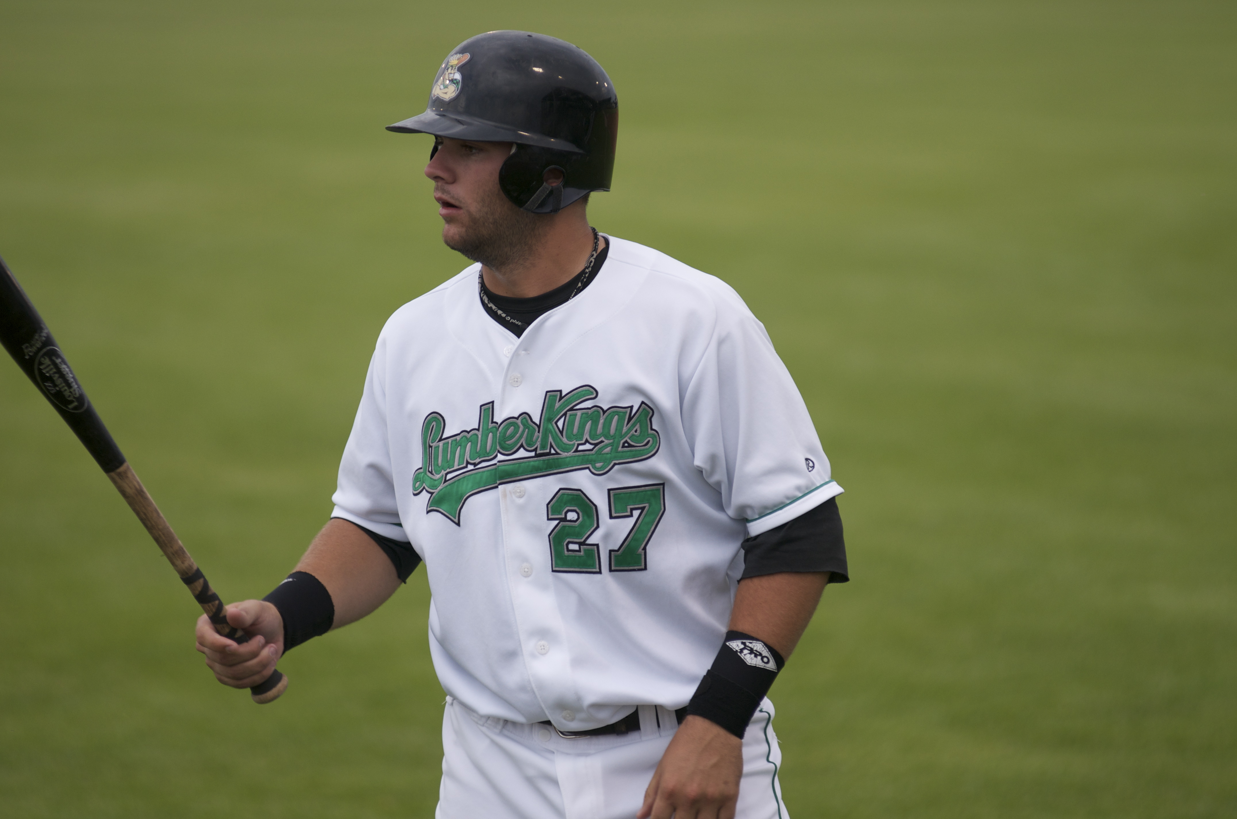 Mitch Moreland.